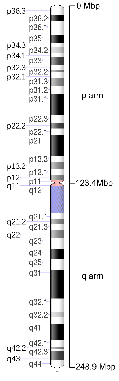 Ideogram of human chromosome 1. G-band, 550 bphs (bands per haploid set). Black and gray: Giemsa positive. Red: Centromere. Light blue: Variable region. Dark blue: Stalk. Mbp: Mega base pairs.